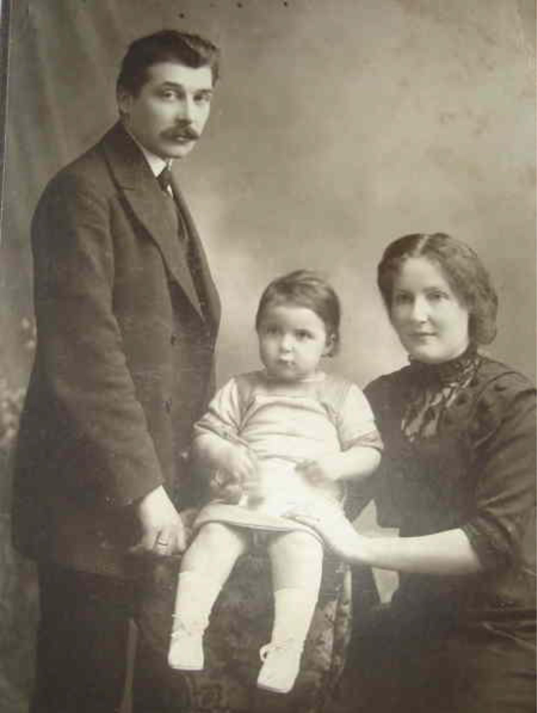 Anton Datlaf, member of socialist-revolutionary party and member of Russian Constituent Assembly with his falmily - wife Sofiya (Srra) and one years old daughter Tatiana, famous biologist in future